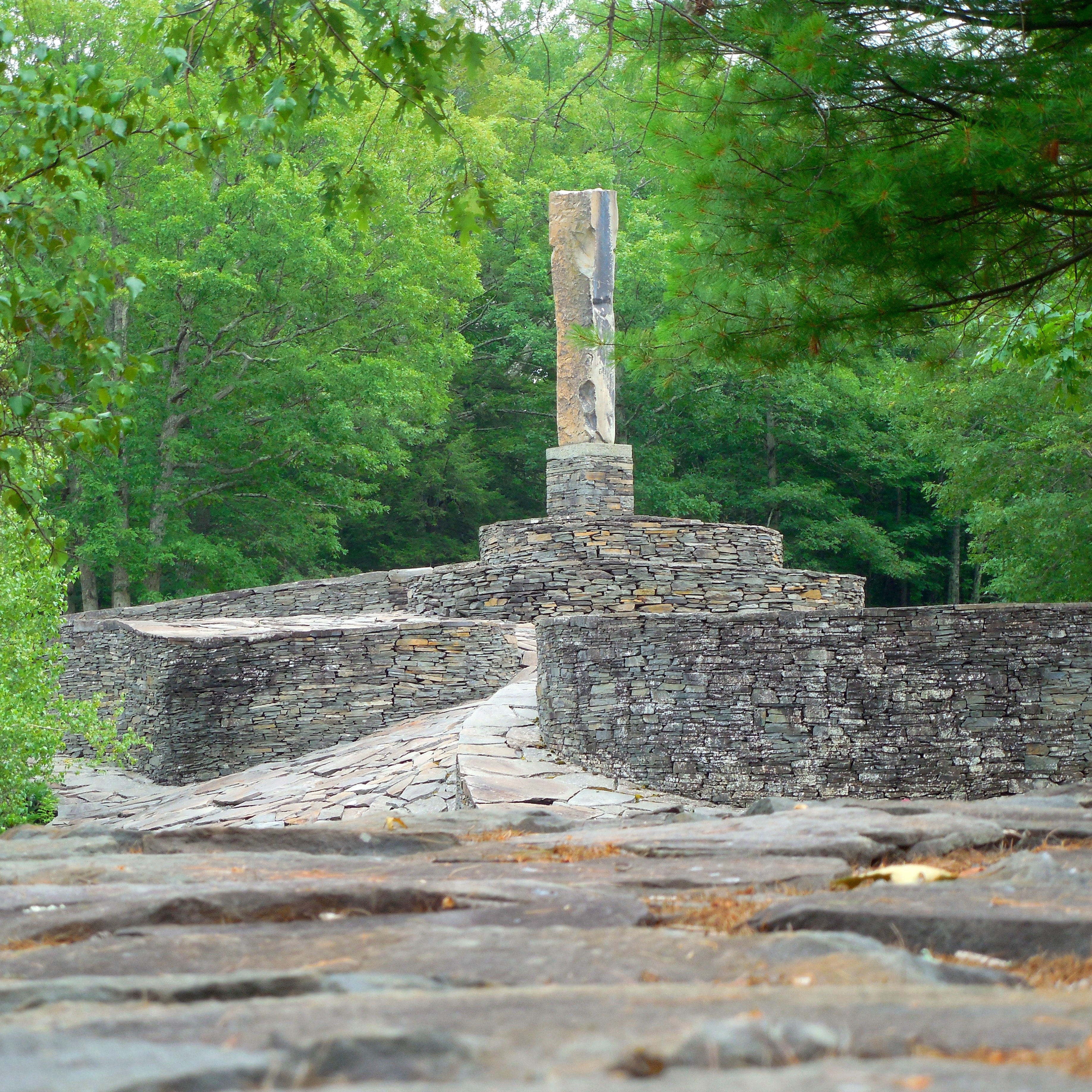 "Opus 40" stone sculpture park in Saugerties, New York. Built by Harvey Fite between 1939-1976, the site was added to National Register of Historic Places on March 12, 2001.